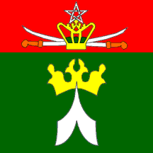 Flag of Salé